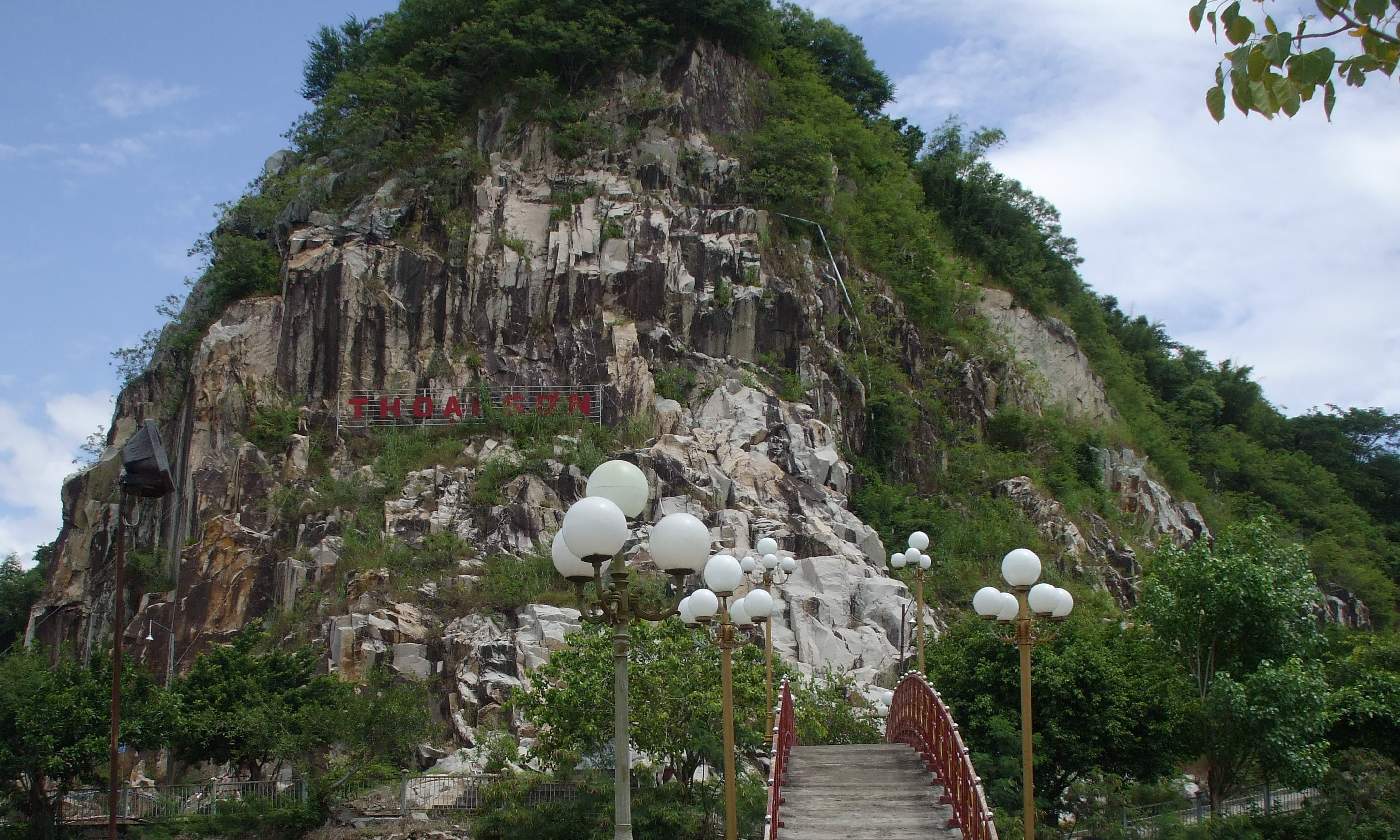 Mount Thoại (Sập), Thoại Sơn county, An Giang province.